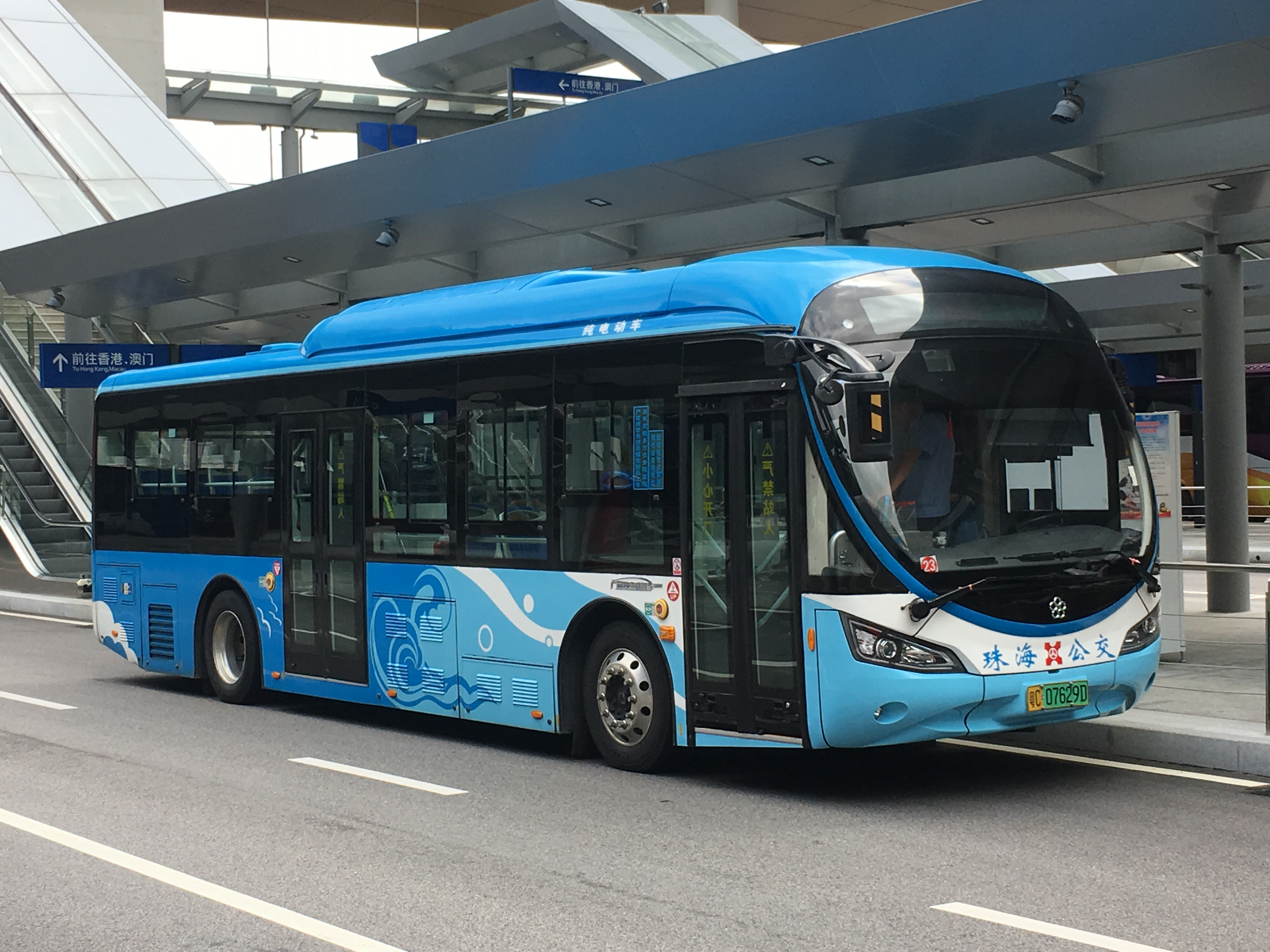 中文（香港）: This photo is taken in HZMB Zhuhai Port.